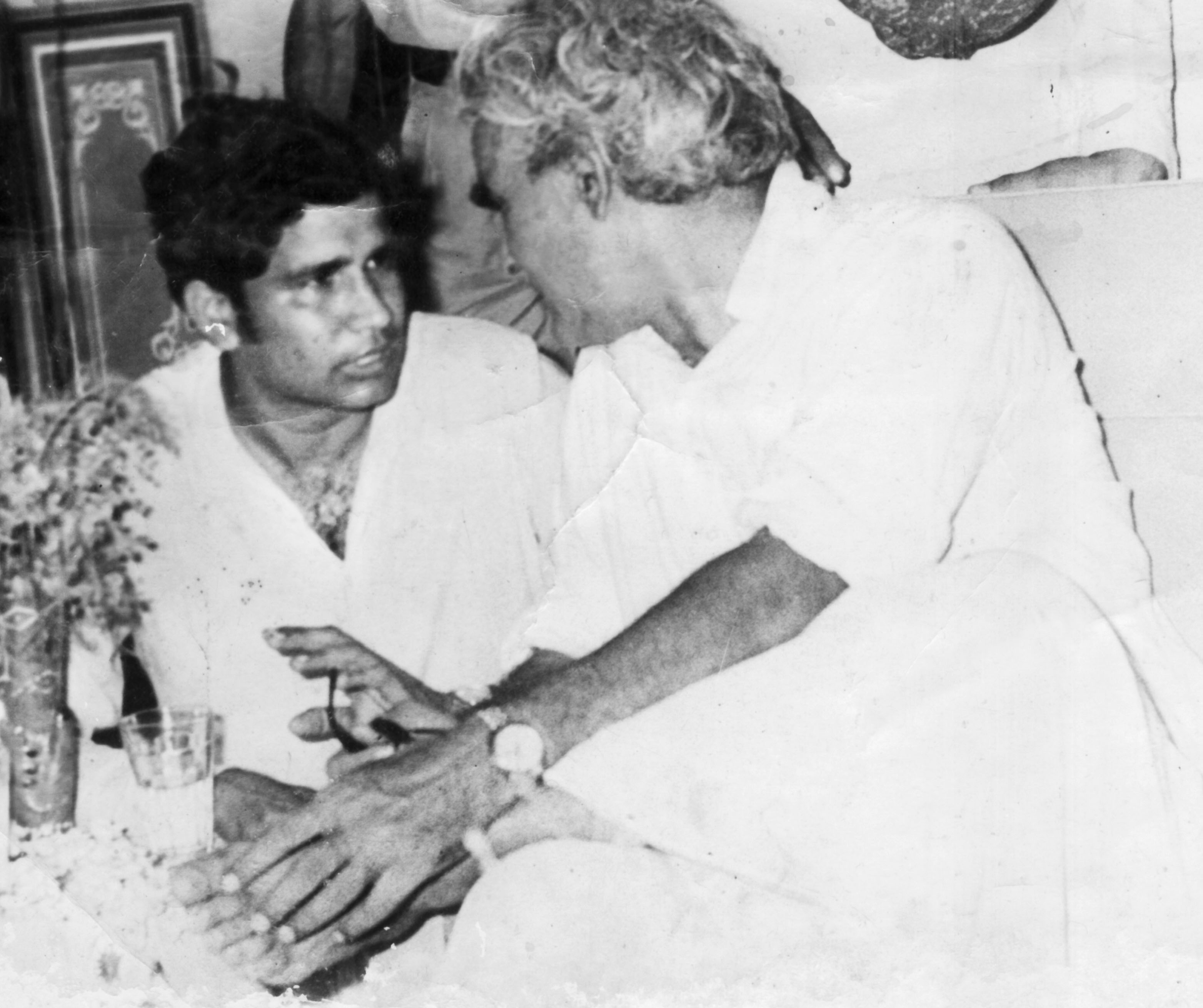 With Late Shri. Bhairo Singh Shekhawat Ji